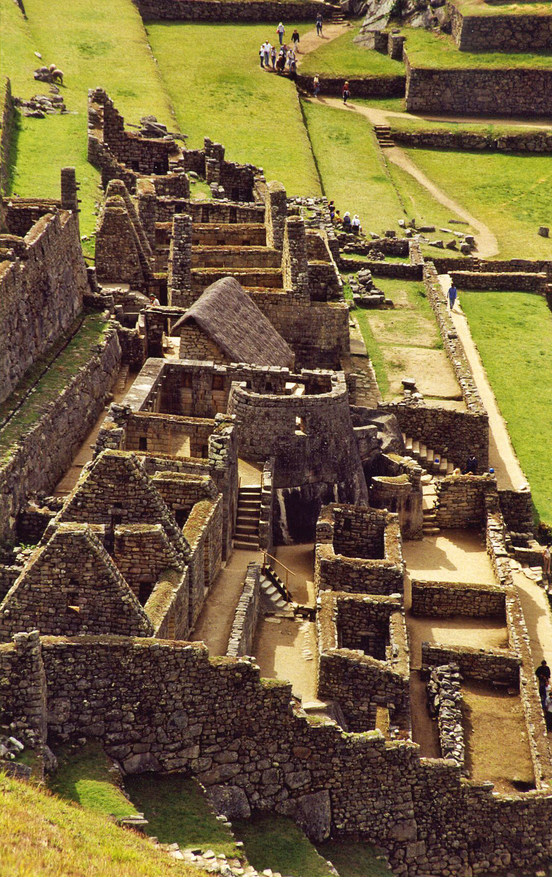 Temple of the Sun, Machu Picchu, Peru